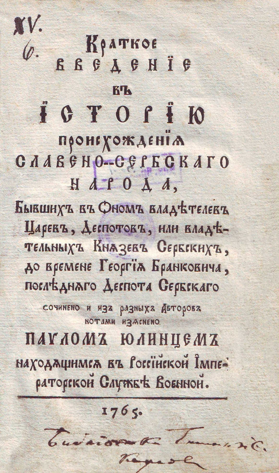 Cover of Kratkoe vvedenie v istoriju proishoždenija slaveno-serbskago naroda (1765) by Pavle Julinac. Srpski (latinica): Naslovna strana prve štampane istorije srpskog naroda Kratkoe vvedenie v istoriju proishoždenija slaveno-serbskago naroda (1765) Pavla Julinca.